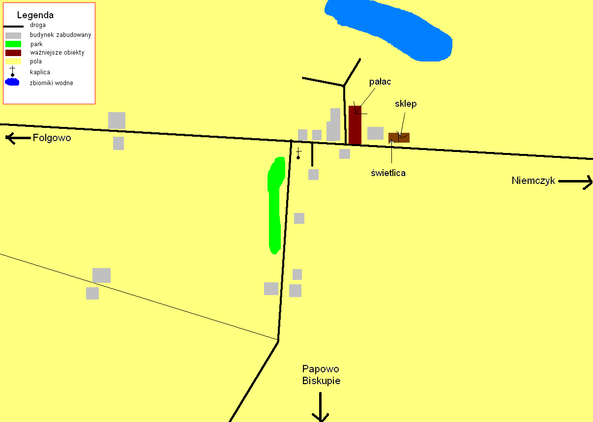 Map village Nowy Dwór Królewski